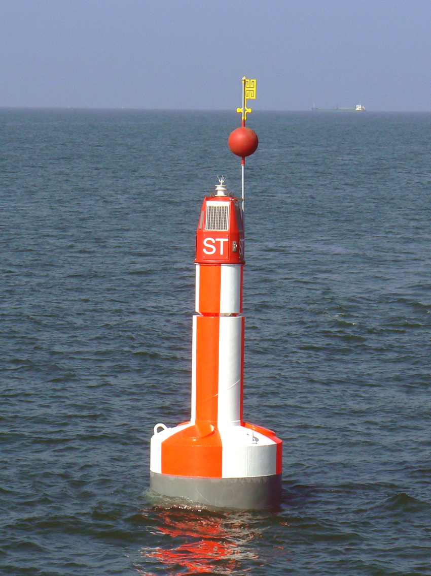 Photo of the Schlüsseltonne (“Key buoy”), a sea mark at the german north sea cost (position: 53° 55′ 58″ N, 7° 58′ 30″ E), which functions as a navigation mark to guide ships into the Weser river.